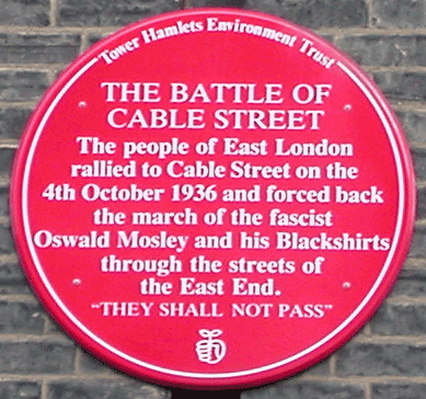 Subject: Red plaque commemorating The Battle of Cable Street Location: Dock Street, near Cable Street junction, London Date: 17 Sept 2005 Photographer: Richard Allen Technical summary: Low quality digital photograph Post-production: cropped; converted to png-8 format Resolution: 72 pixels/inch Size: 389x364 pixels; 87k Colors: 128; 88% dither